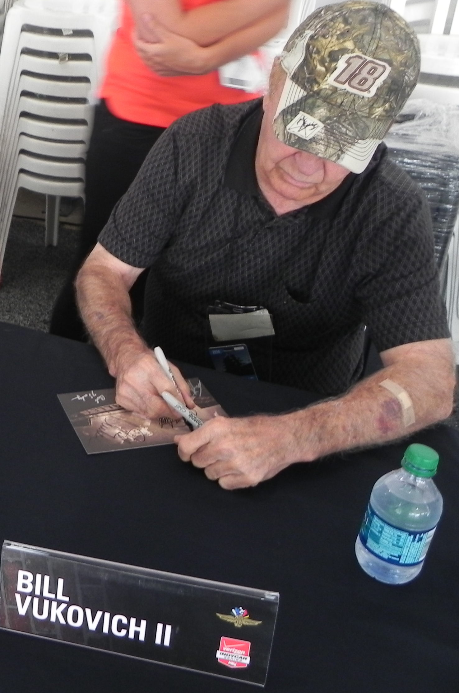 Indy500 driver Bill Vukovich II at the 2014 Indianapolis 500.